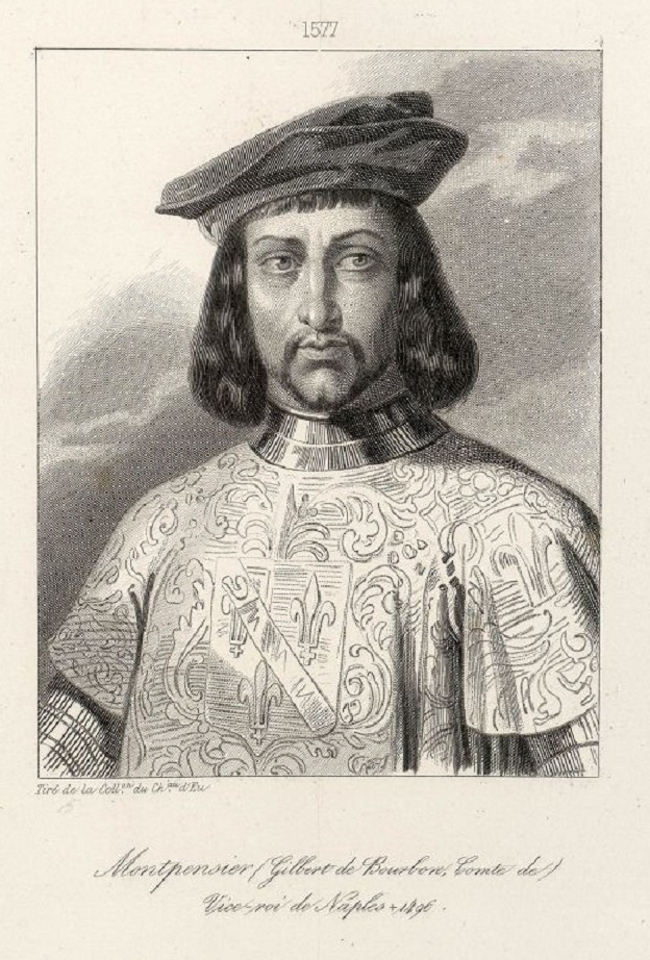 The Viceroy of Naples Gilbert de Bourbon-Montpensier (1443-1496)